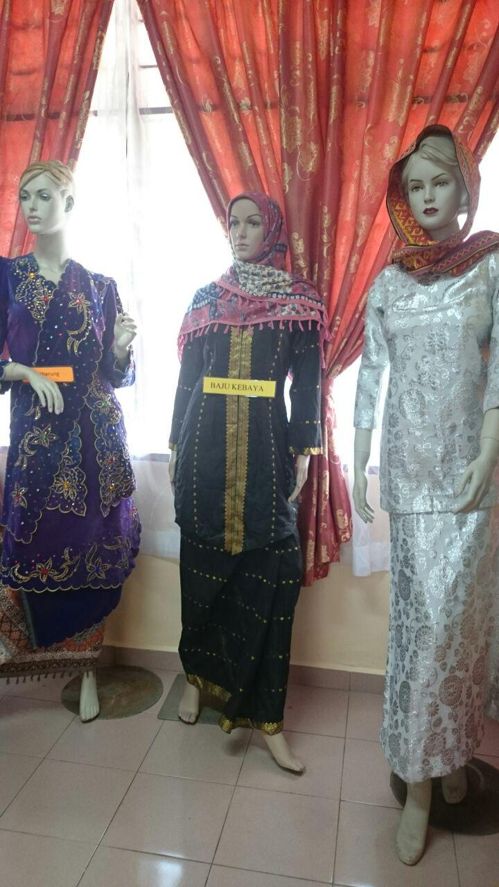 clothing malay tradition